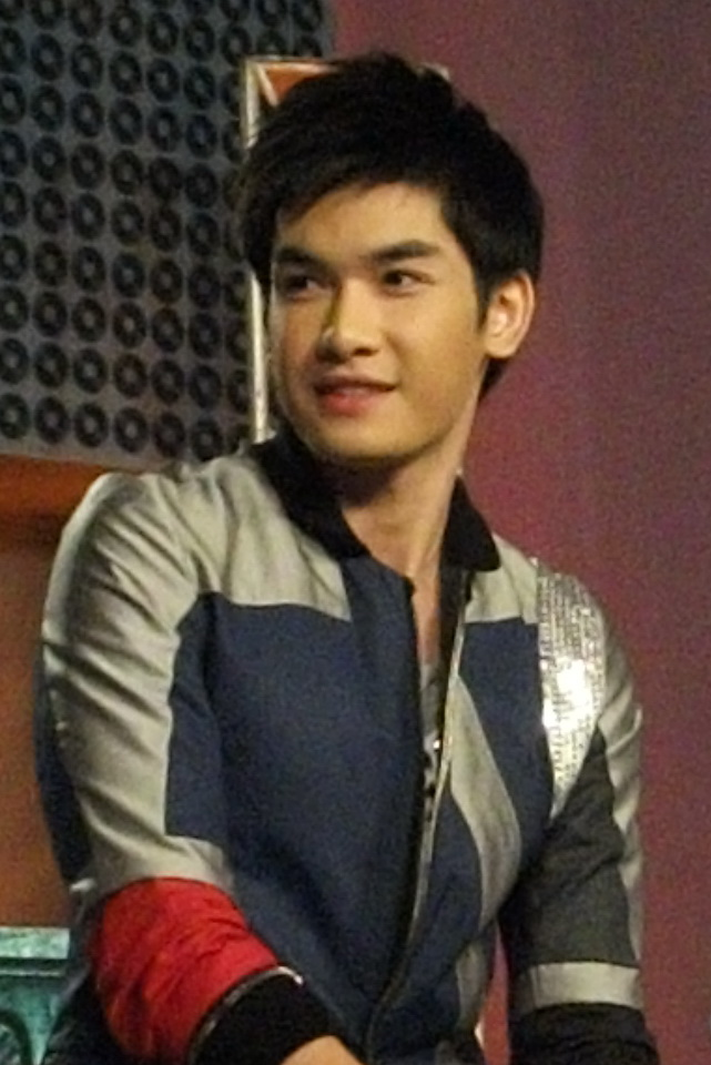 Singharat Chanpakdee at Onair Live (Very TV)